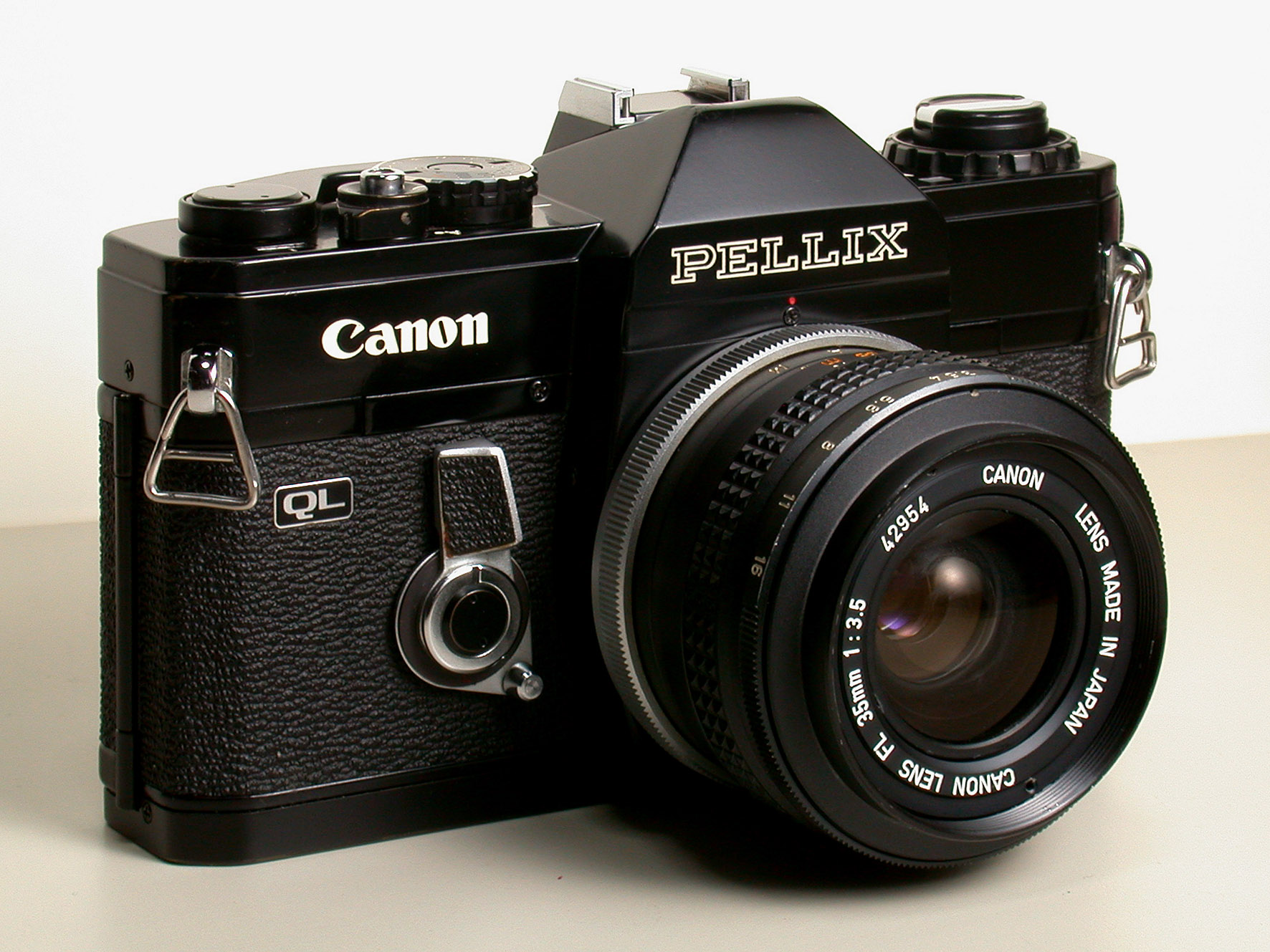 Canon pellix w/FL 35mmF3.5